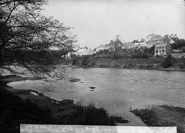 1 negative : glass, dry plate, b&w ; 12 x 16.5 cm.